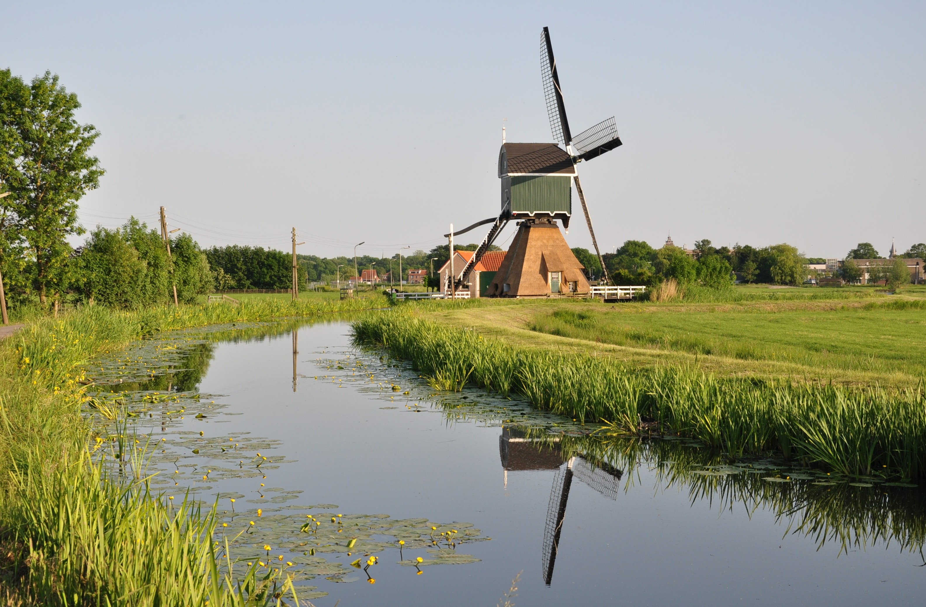 Windmill 'Bonrepas' on the shore of the Vlist river (municipality Vlist, Province South Holland, Netherlands).